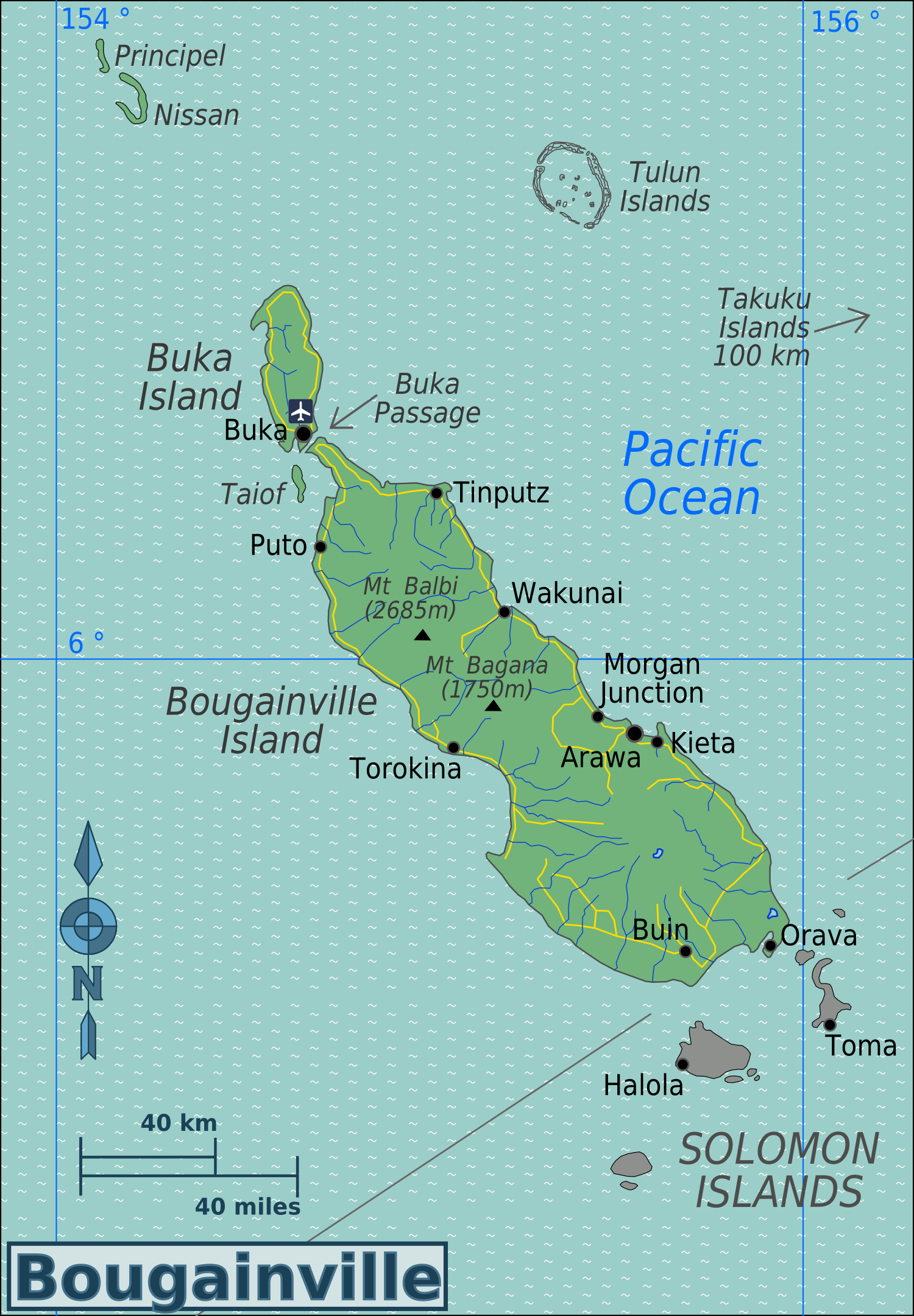 Map of Bougainville (Papua New Guinea) for use on Wikivoyage, English version